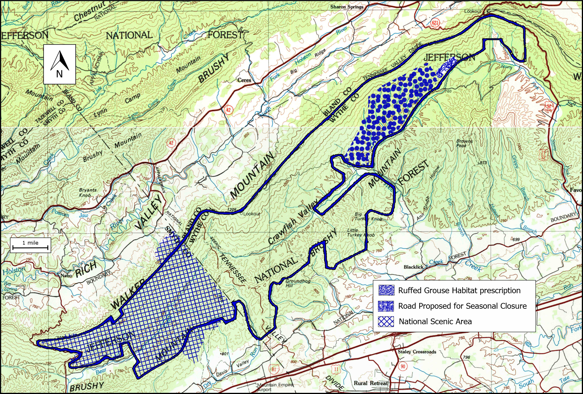 Boundary of the Crawfish Valley wildland in the Jefferson National Forest as identified by the Wilderness Society